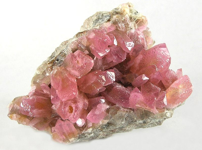 Calcite (Var.: Cobaltoan Calcite) Locality: Bou Azzer District, Tazenakht, Ouarzazate Province, Souss-Massa-Draâ Region, Morocco (Locality at ) Admittedly a bit “matrixy” and not as bright pink, but this one has the largest crystals of the whole batch – to 1.5 cm. They are a differrent habit with modified scalenohedra and a slight matte texture to the surfaces. 6 x 4.5 x 4.5 cm